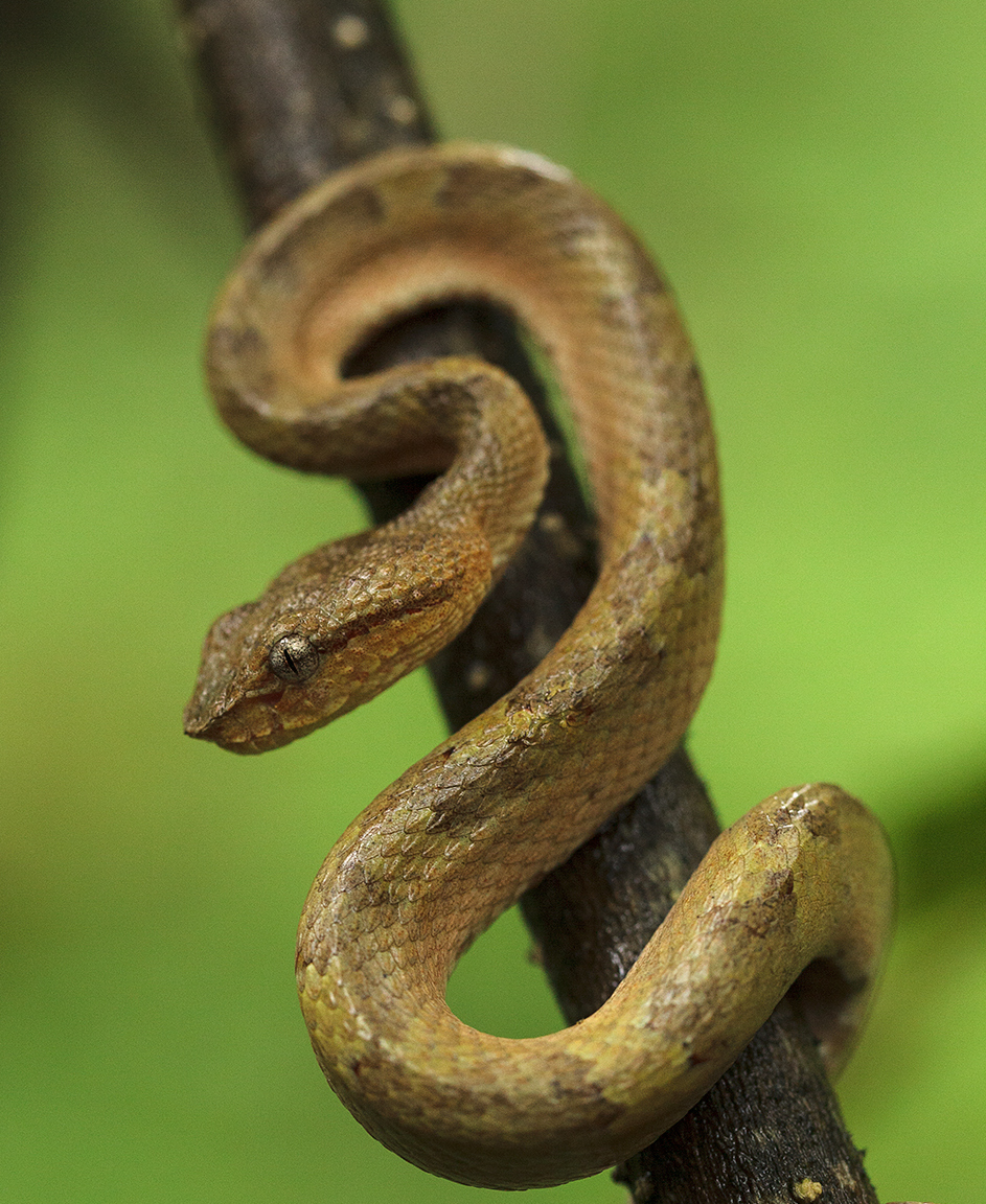 Trimeresurus malabaricus is a venomous pit viper species endemic to southwestern India. No subspecies are currently recognized